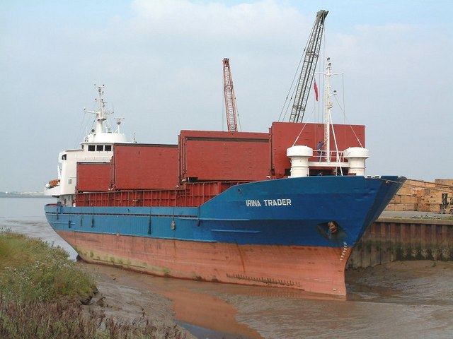 Irina Trader at Barrow Haven Low water view of a vessel in Barrow Haven on 15/6/2001.